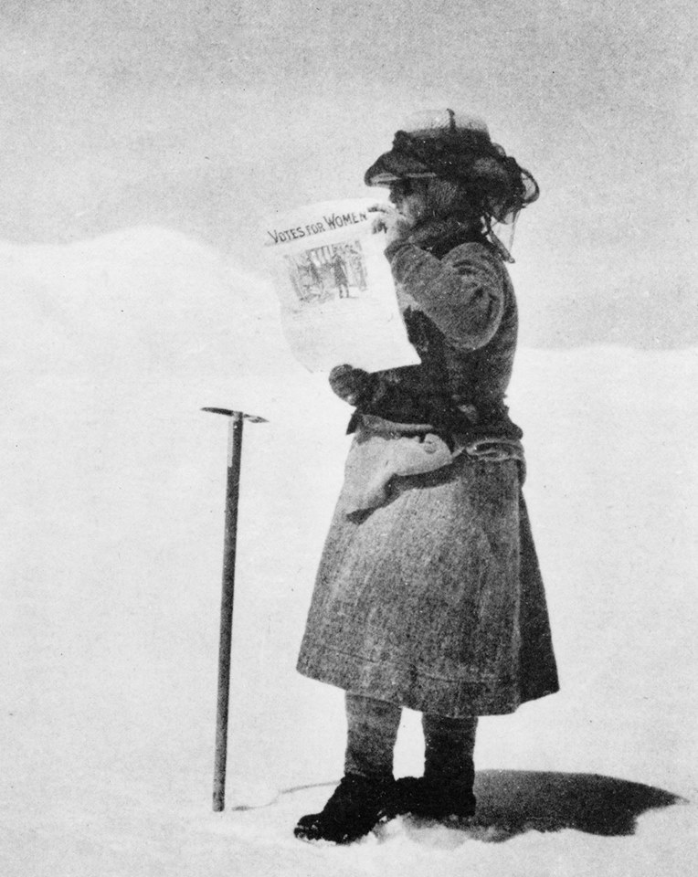 Fanny Bullock Workman on Silver Throne plateau, Karakoran, Kasmir, Asia, at nearly 21,000 feet, with a banner that says "Votes for Women". Image has been rotated 0.5 degrees counterclockwise, cropped, spots removed, and sharpened.